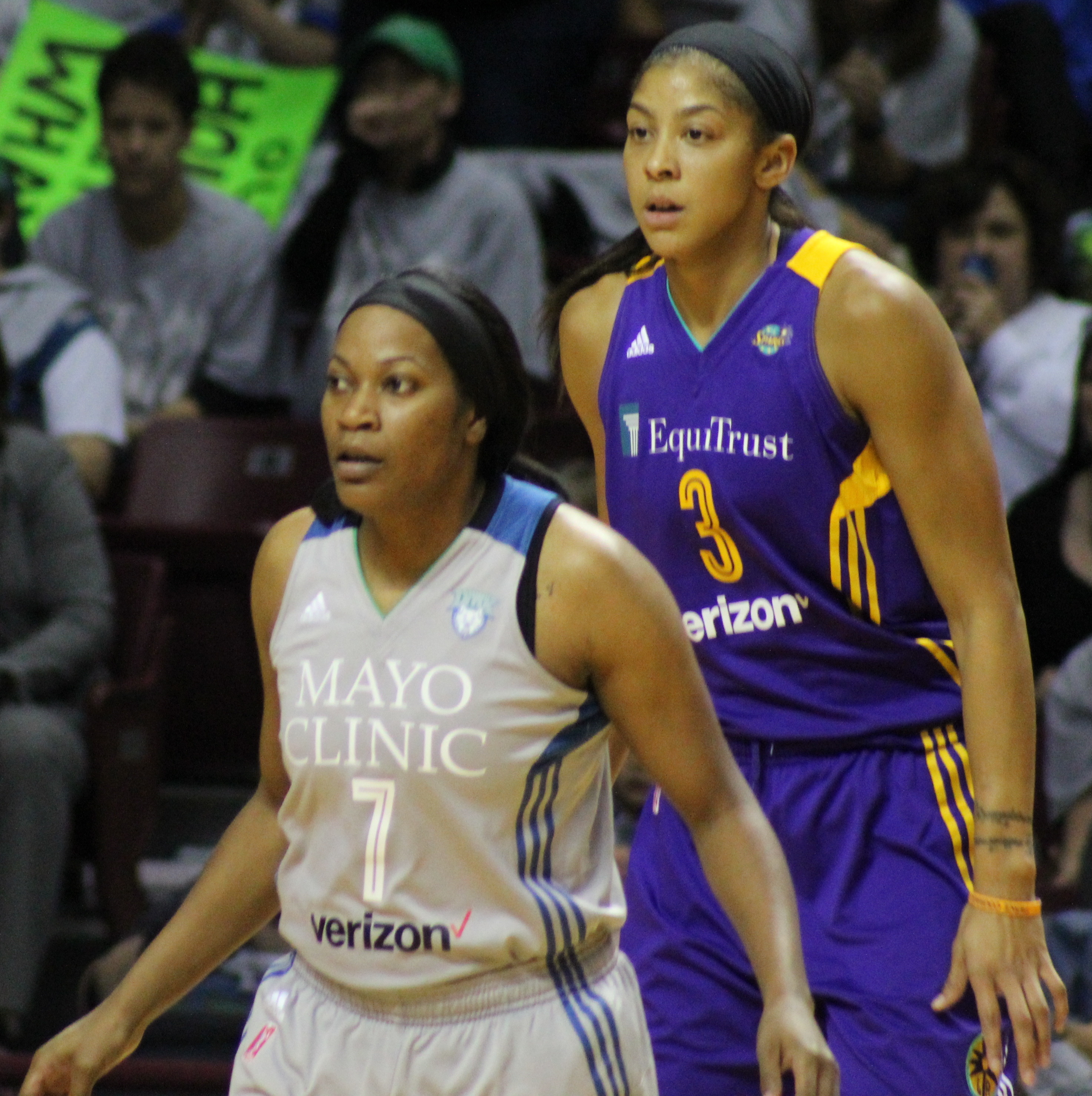 Jia Perkins of the Minnesota Lynx and Candace Parker of the Los Angeles Sparks in the 2017 WNBA Finals